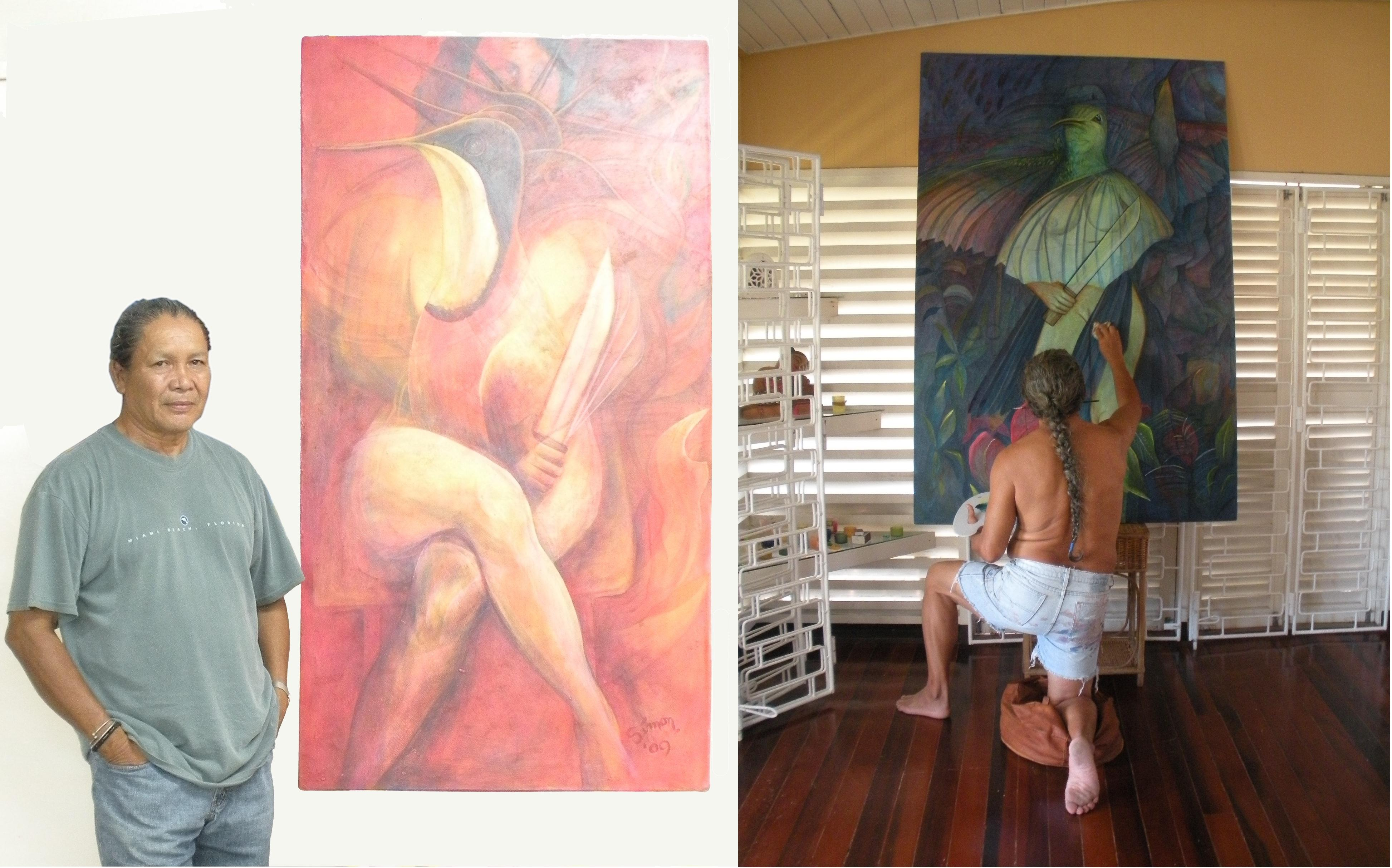 Composite image showing George Simon with his painting, Bimichi I (left) and working on Bimichi II (right)